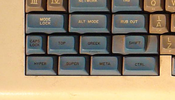 Symbolics LM-2 Lisp machine space-cadet keyboard